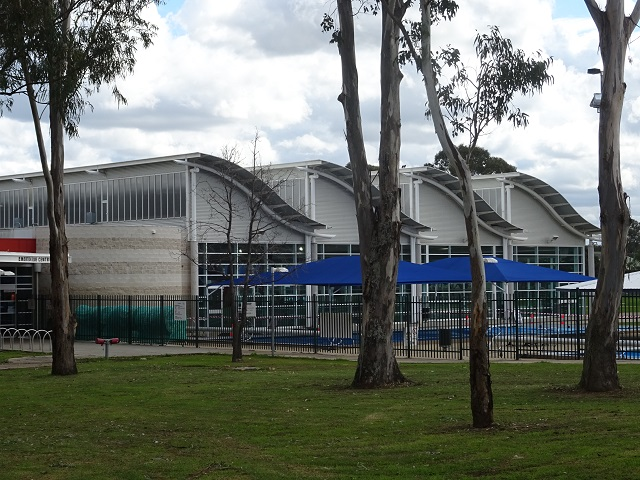 Emerton Leisure Centre on Jersey Rd, Emerton, NSW